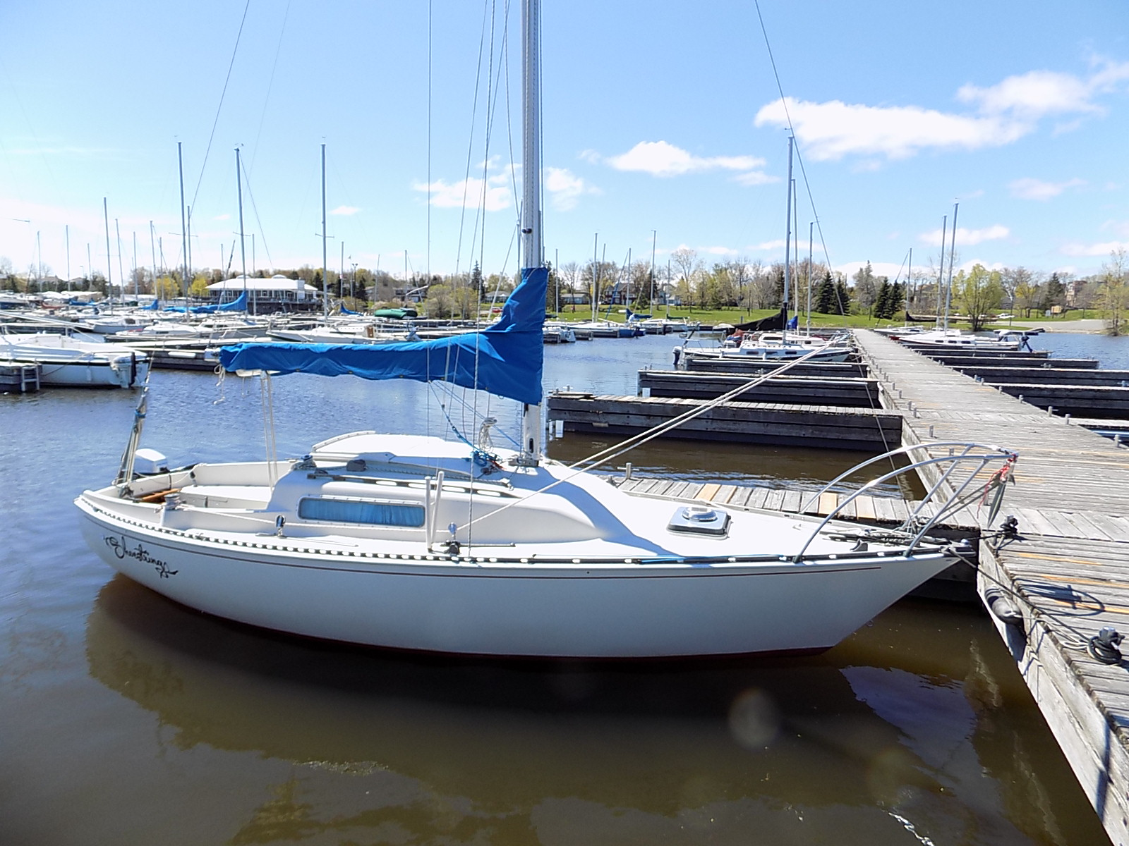 A CS 22 sailboat named Shoestring